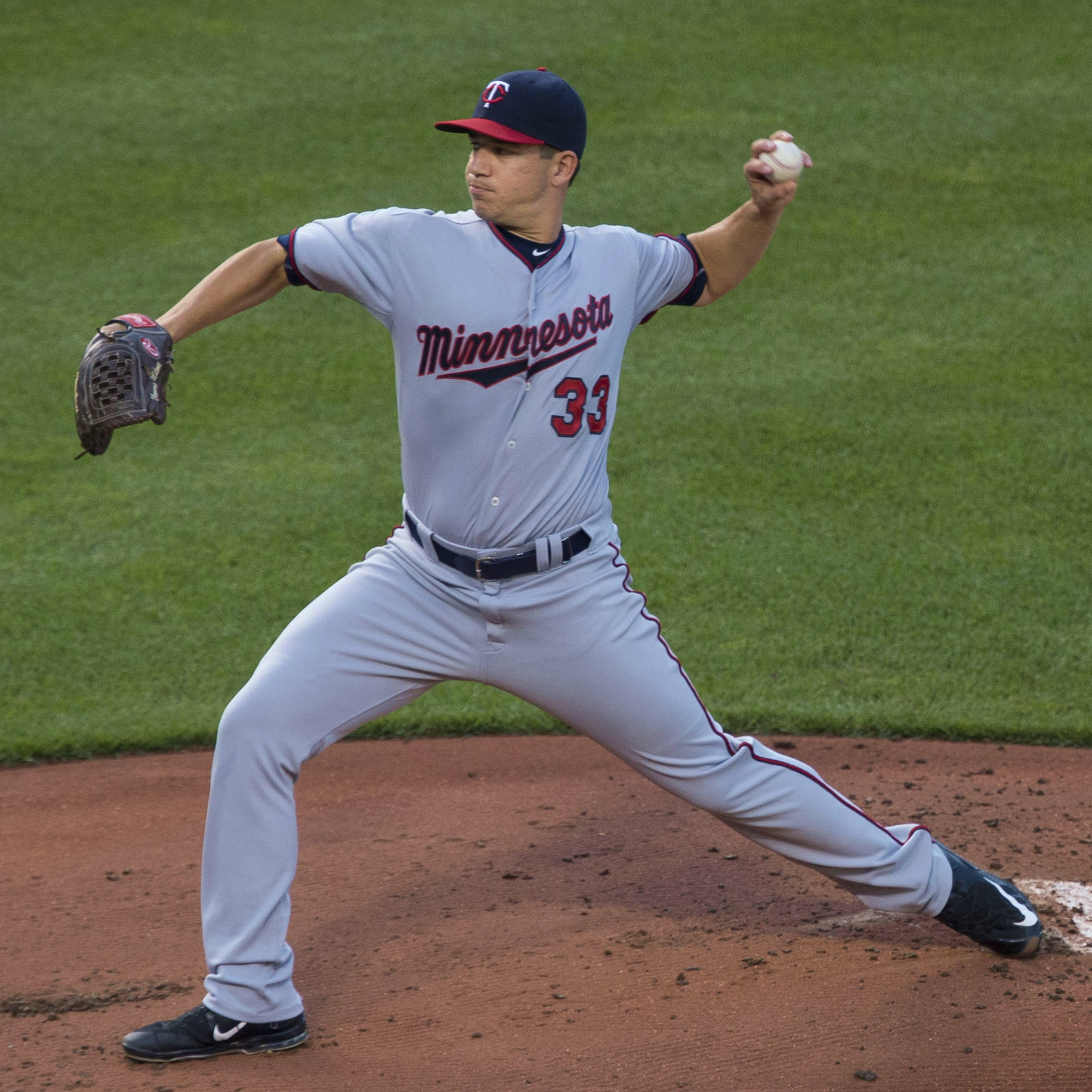 Tommy Milone